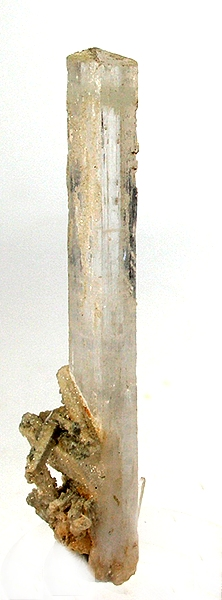 Natrolite Locality: Bound Brook, Somerset County, New Jersey, USA (Locality at ) From the traprocks (basalt flows) of the First Watchung Mountains comes this doubly terminated, glassy, prism of natrolite. These were plentiful in the heyday of the trap rock quarries, but are much harder to find in good crystals today. This is likely an older specimen and it is superb for the gemminess, clarity, and sheer size. Crstals of this calibre are extremely uncommon and rank among best of species , in my opinion, because of the transparency that is so rare in natrolite 7.4 x 1.6 x 1.6 cm